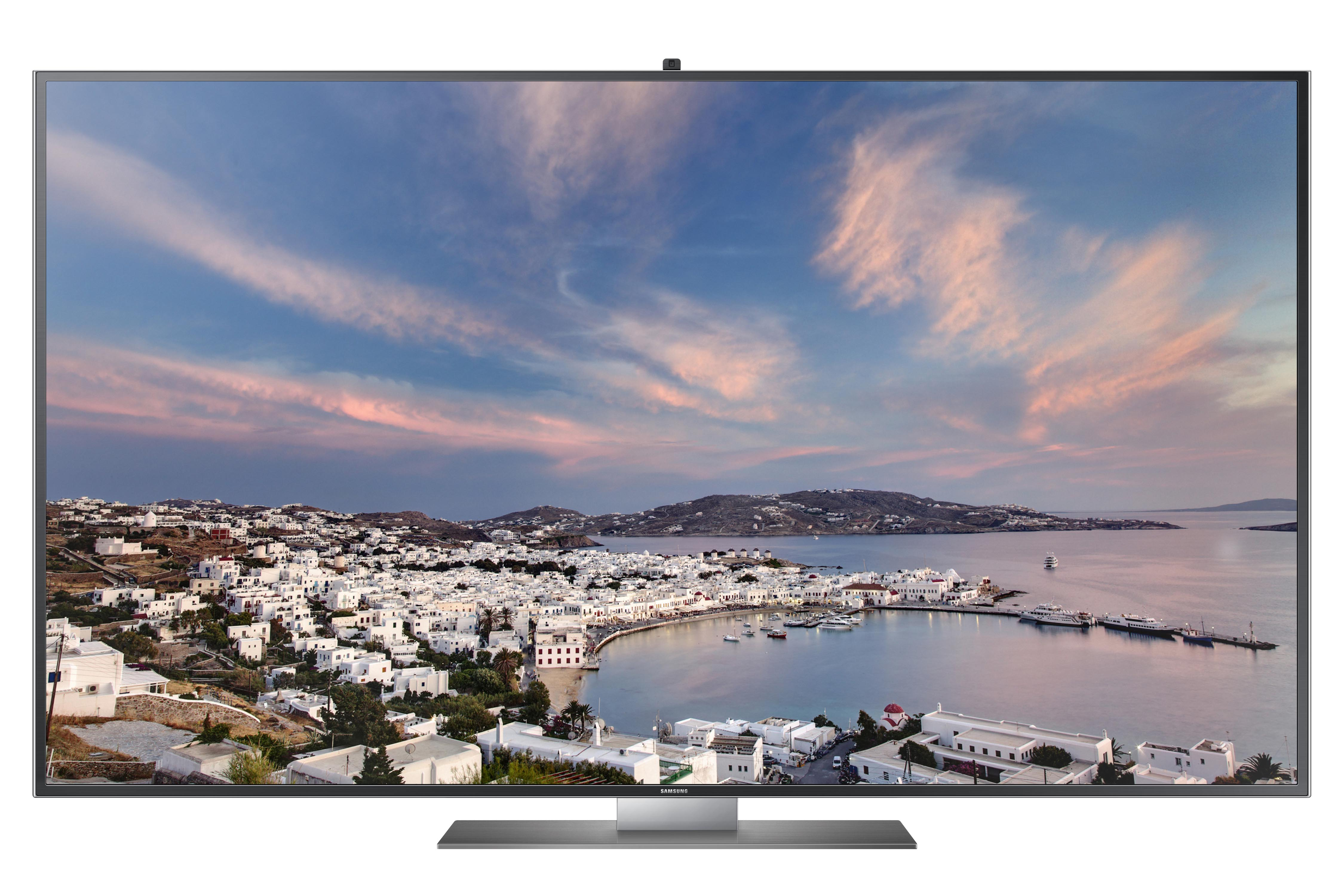 Samsung UE65F9005STXXE front black